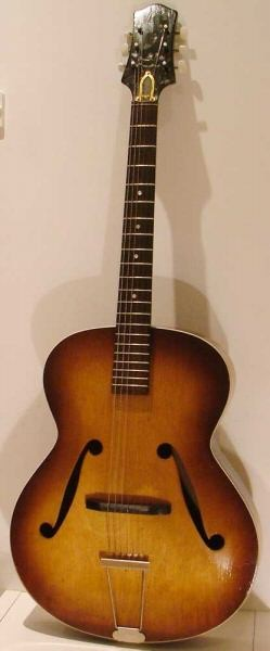 Framus Zenith Model 17 “The success of the book The Josh White Guitar Method [1956] prompted Mairants to commission a Zenith “Josh White” signature guitar based on Josh's Martin 0021 from German guitar maker Oscar Teller. ... On the last page of "Josh White Guitar Method" (printed 1956) there is a photo of this Zenith Josh White signature guitar and some text about it.[1] ... Mairants also commissioned German guitar manufacturer Framus to make further Zenith Guitars, with Boosey & Hawkes being the sole distributor and each one personally signed by him. These included the Zenith Model 17 acoustic which became Paul McCartney's first guitar and on which he subsequently wrote most of his early songs.” —English Wikipedia "Ivor Mairants" “In the 50s Paul McCartney owned a model of a Framus Ivor Mairants "Zenith" guitar. He had originally been given a trumpet for his 14th birthday in 1956 but he learned he could not possibly sing playing a trumpet so he swapped it for a Framus "Zenith" model 17. He used it to compose some of his first songs with it including "When I'm Sixty-Four". It still hangs in his studio.” —English Wikipedia "Framus" References ^ Josh White; Ivor Mairants; (1956) Josh White Guitar Method, Boosey & Hawkes, pp. 68, 69, 70.